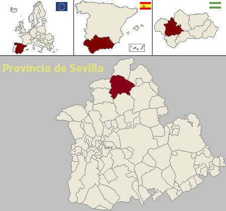 Cazalla de la Sierra